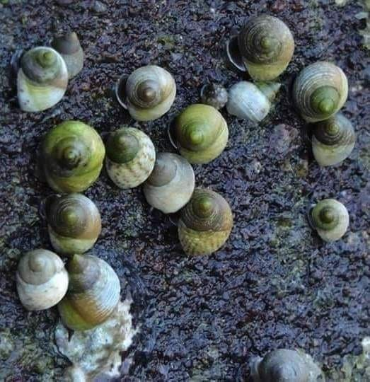 A group of Littorinidae molluscs of the Littoraria flava (P. P. King, 1832)[1] species, on a rock in Paraty, south coast of the state of Rio de Janeiro, southeast of Brazil.